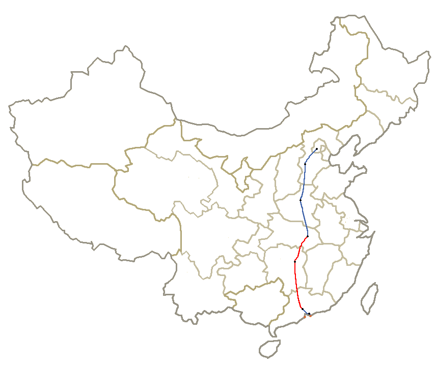 Map showing Beijing-Hong Kong Line (High-speed rail)